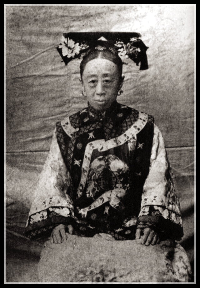 Photograph of Princess Kurun Rongshou of China